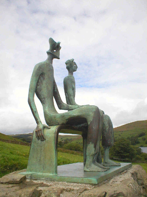 'King & Queen' by Henry Moore, Glenkiln. Moronic vandals performed decapitation on this sculpture: repairs have been made.